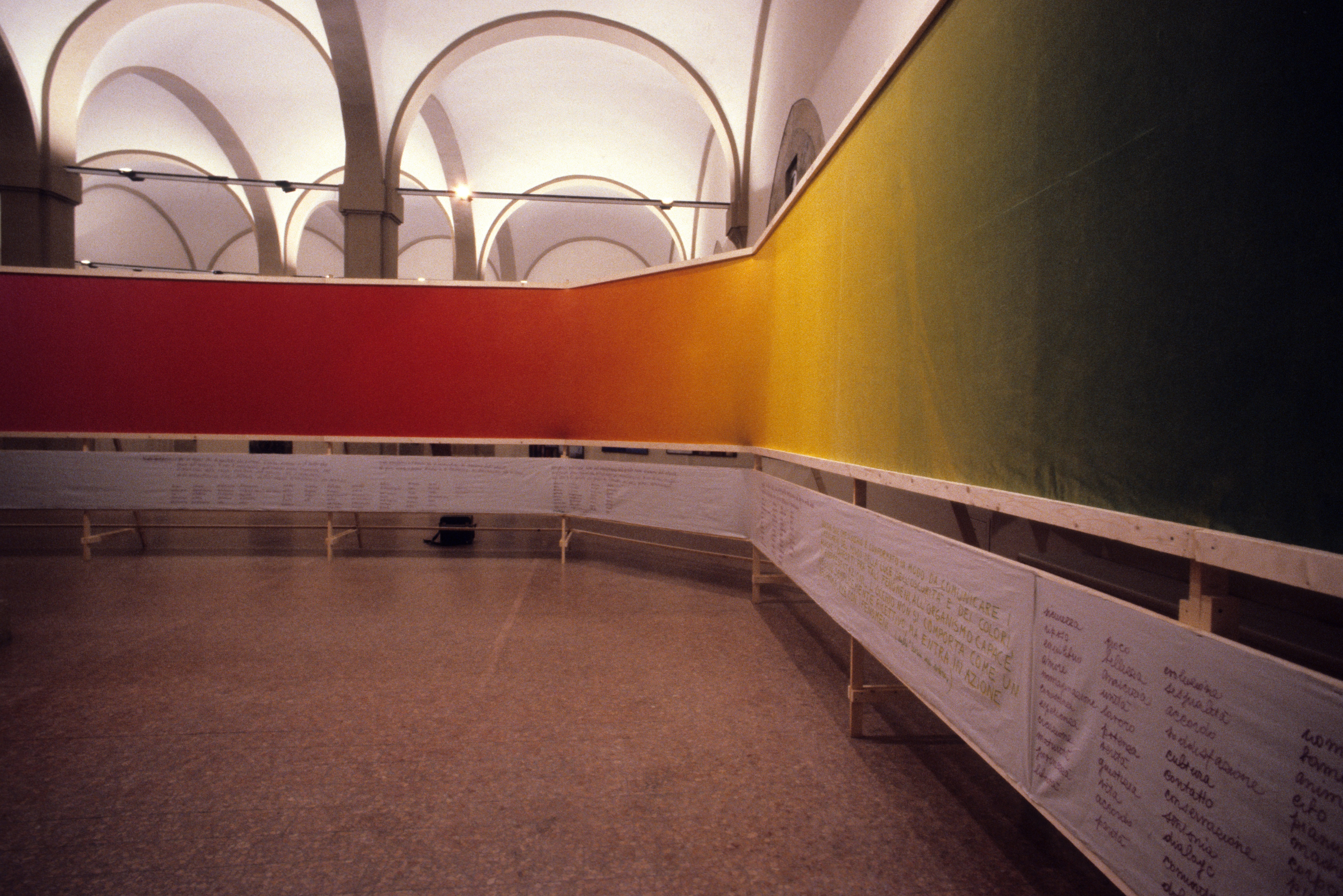 Maria Petroni, Rainbow. Large painting on canvas lying on the walls,1977